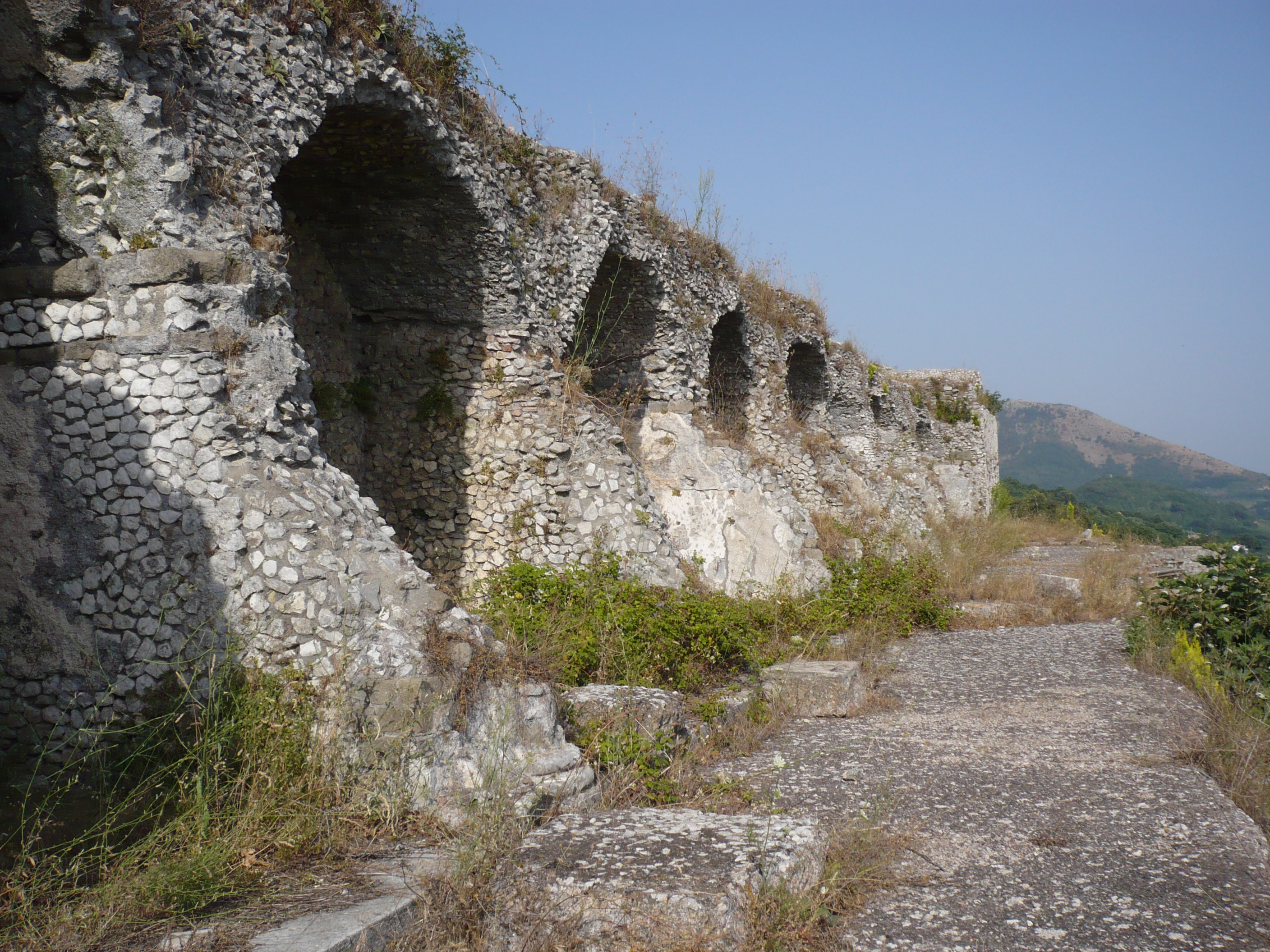 Ruins of the Sanctuary of Fortuna Primigenia, Palestrina